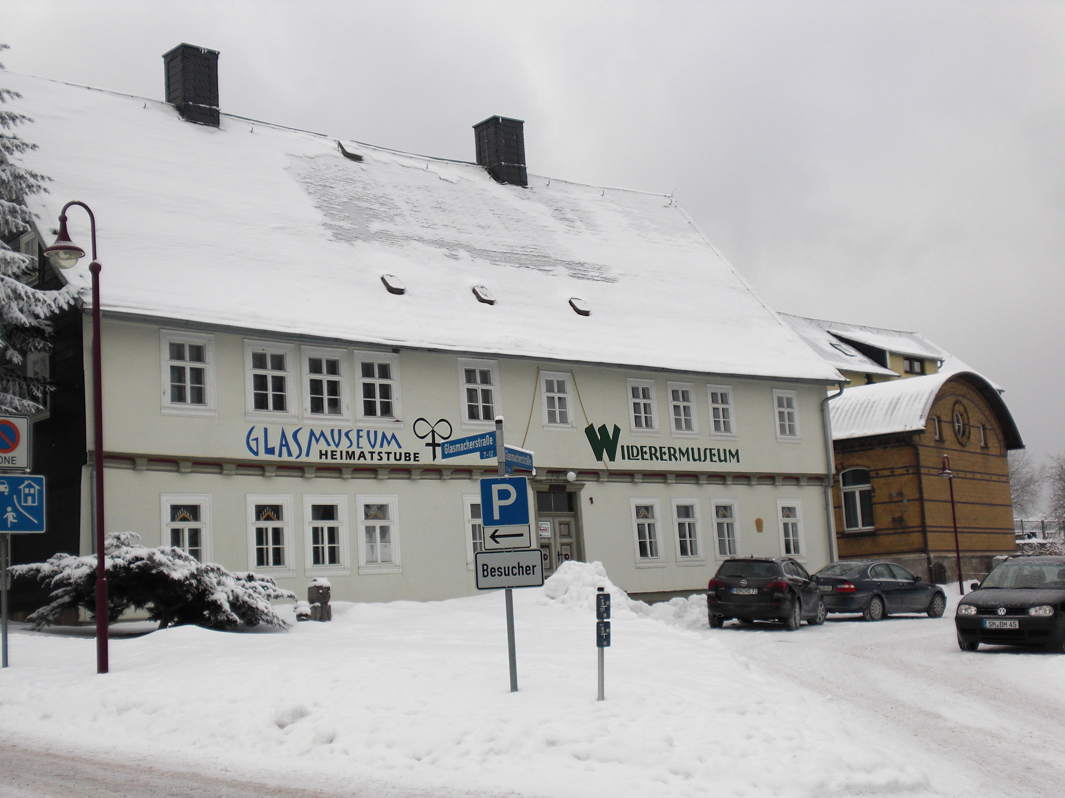 Two museum in Gehlberg near Suhl/Thuringia